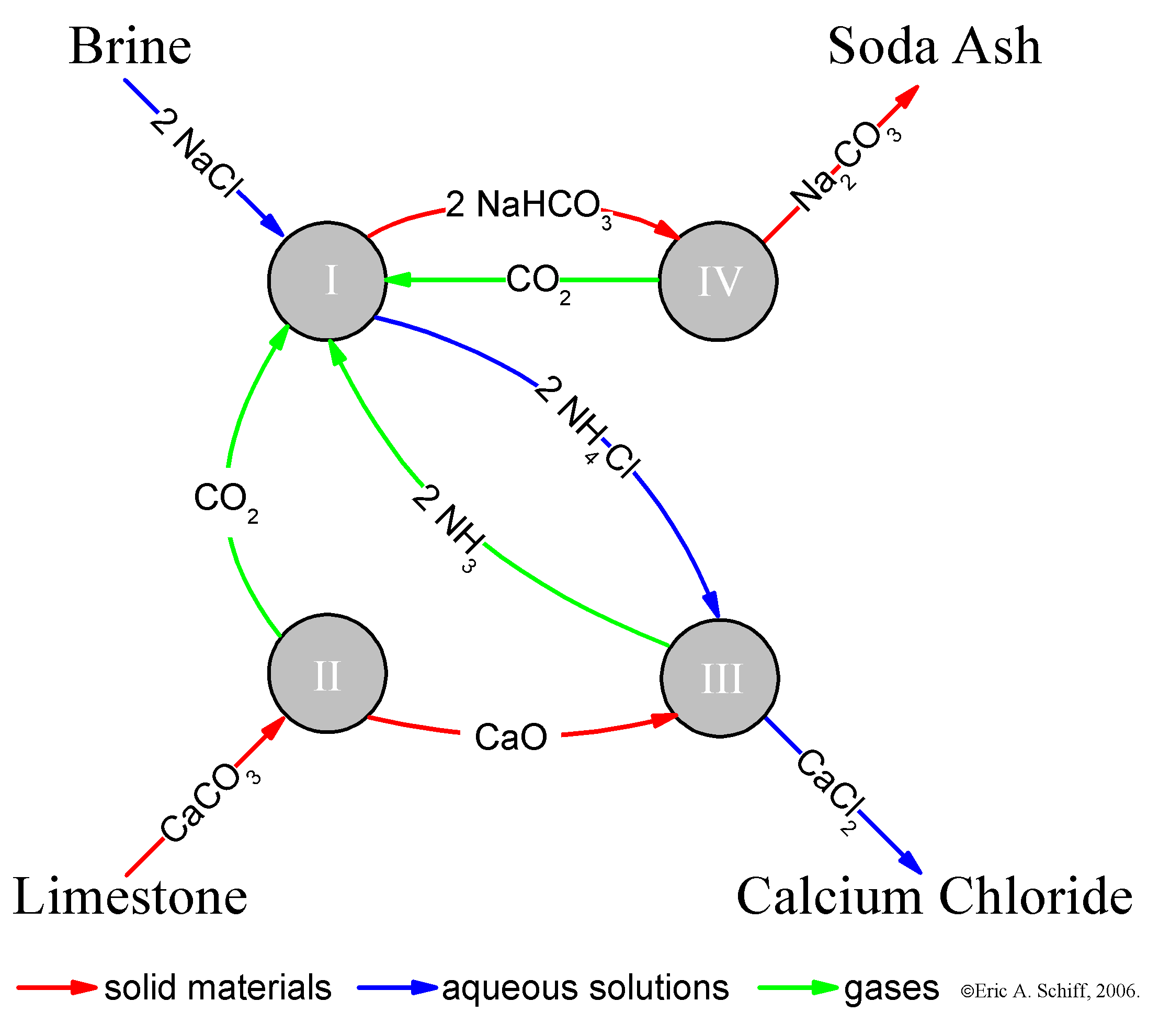 The figure illustrates the flow of reactants and products among the four principal chemical reactions involved in the Solvay process for the production of soda ash (Na2CO3) from limestone (CaCO3) and salt (NaCl) brine. Note that water (H2O) is not explicitly indicated as a reactant or product. The image was created using Origin 7.0 (Originlab, Inc.); a vector graphics version (such as encapsulated postscript) is available upon request. Esthetically, the work of the artist Mark Lombardi may be the high water mark of the type of "network" graphic presented in this figure.